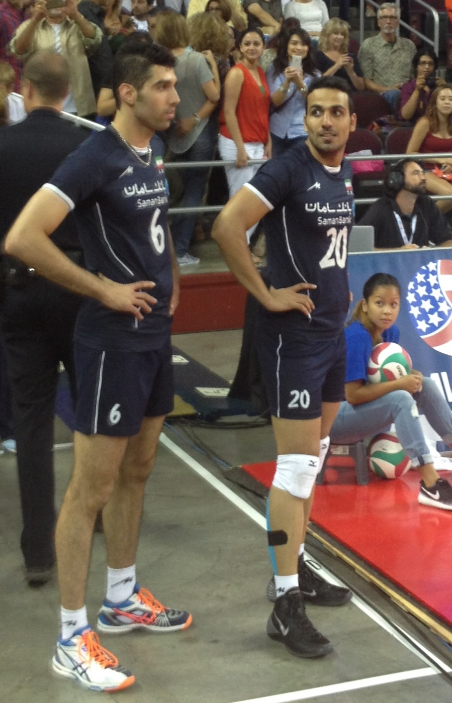 Alireza Mobasheri and Mohammad Mousavi (volleyball)